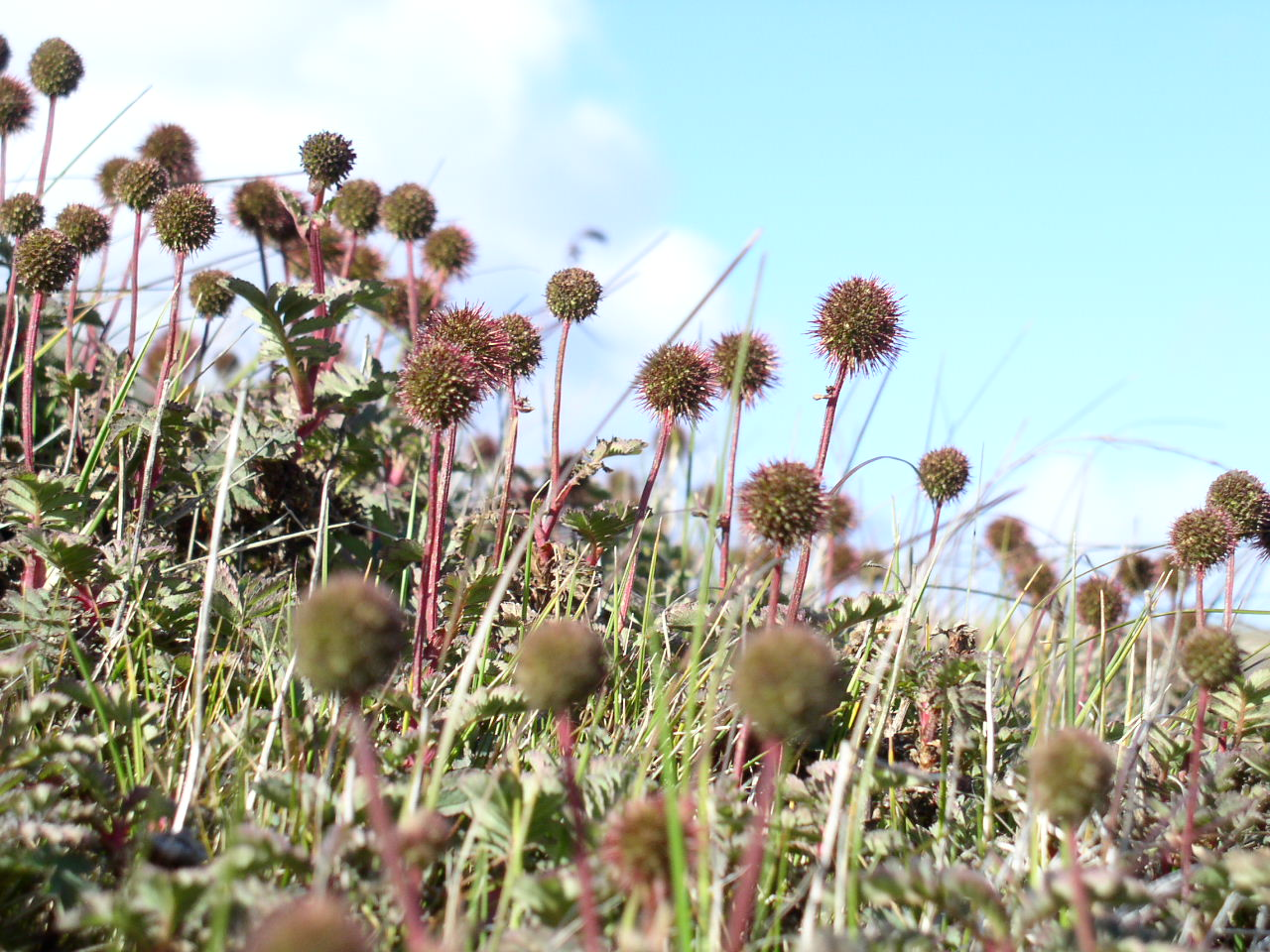 Acaena magellanica on Possession Island (Crozet Archipelago)